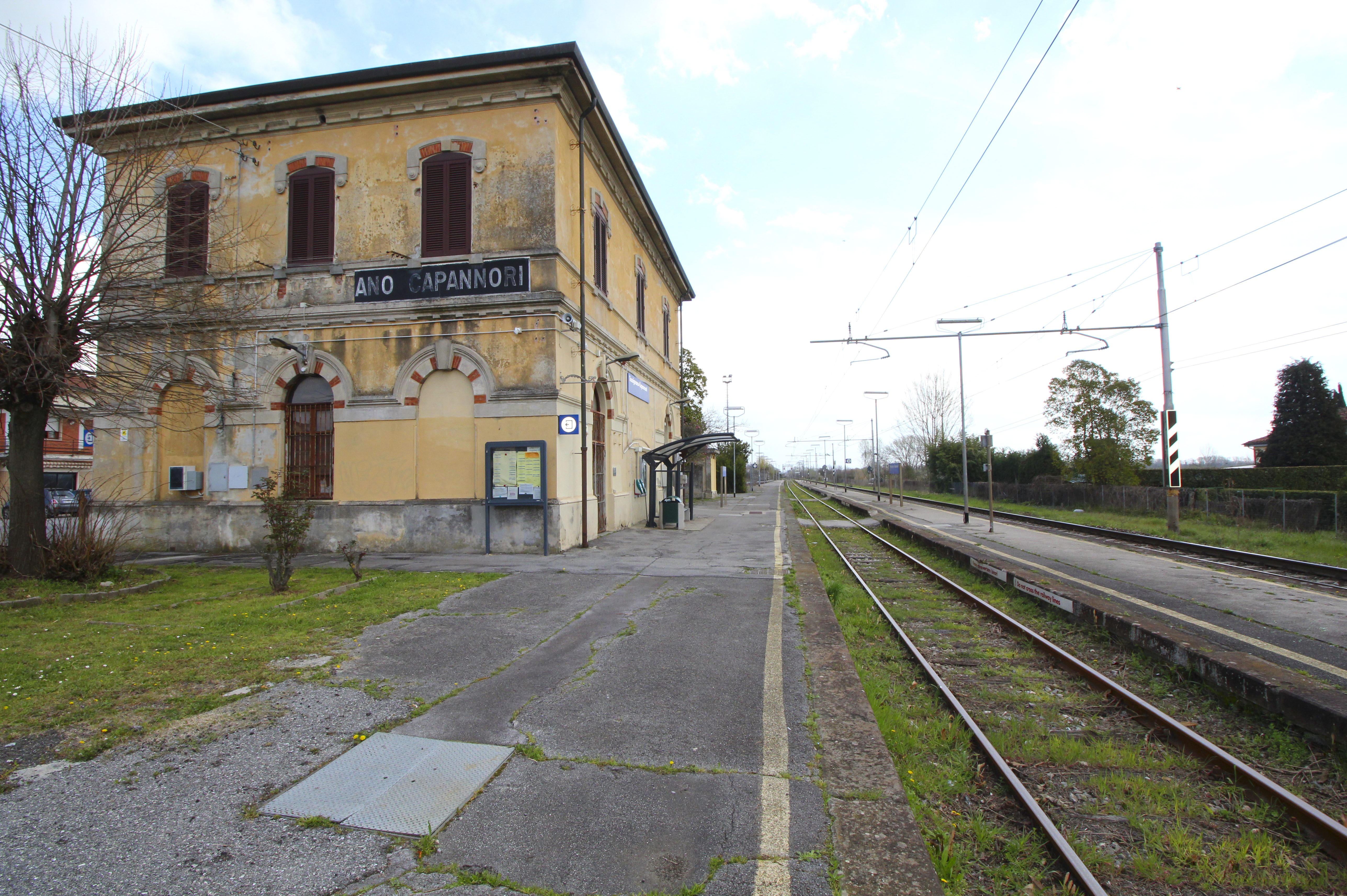 Tassignano Train Station, Tassignano, hamlet of Capannori, Province of Lucca, Tuscany, Italy